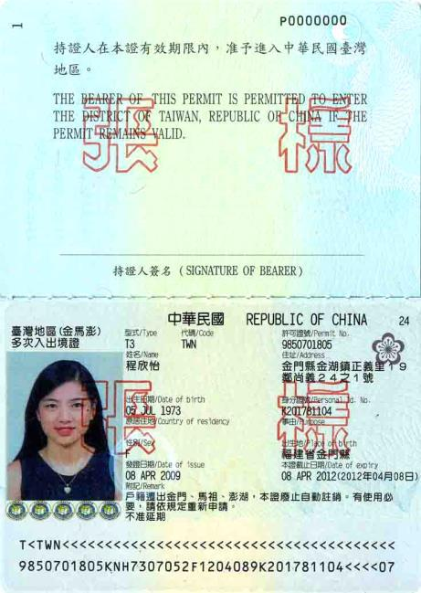 Data page of multiple use Exit & Entry Permit (Republic of China) for Kinmen, Matsu, and Penghu residents. Valid only for entering/exiting via ports in Kinmen, Matsu, and Penghu. Note the non-standard ISO 3166-1 alpha-3 code KNH.